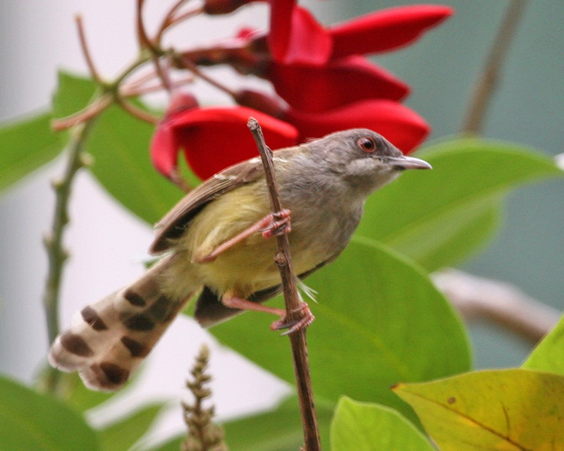 Photograph of bar-winged Prinia (Prinia familiaris), taken from hotel near Soekarno-Hatta International Airport, Jakarta, Indonesia.